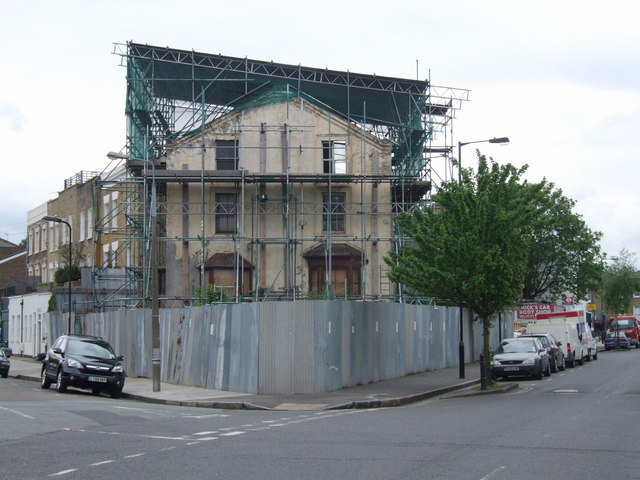 House of the Hackney Mole Man